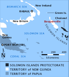 Map showing location of Bougainville relative to New Guinea, New Britain and New Ireland, also indicating political division of Territories c. 1942. Green Islands and Choiseul I. are indicated, also towns of Rabaul and Port Moresby. The land is indicated in white, grey and black, while the sea is a lovely blue. The Solomon Sea, Bismarck Sea and Coral Sea are indicated. The name of Bougainville is highlighted in red.